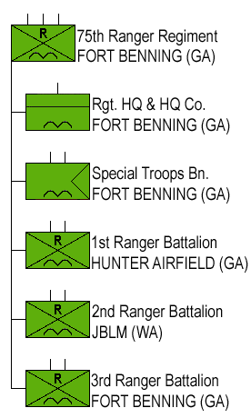 Structure 75th Ranger Regiment.